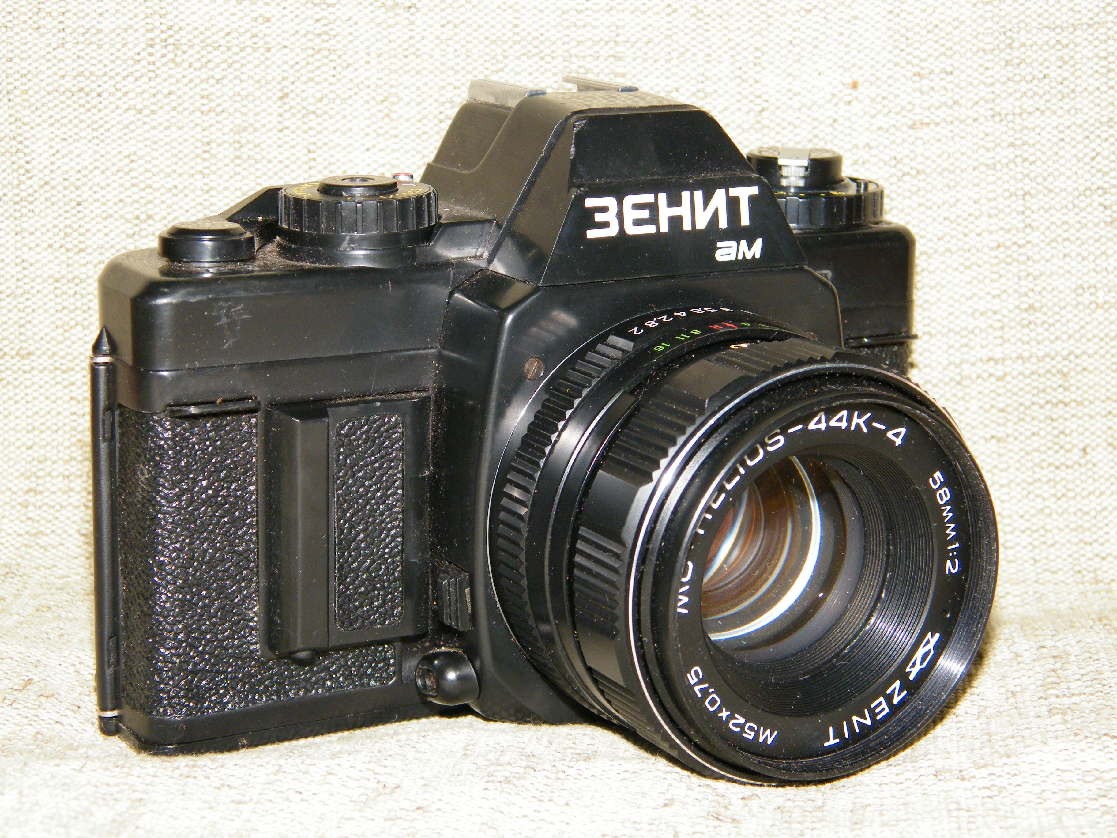 Zenit am